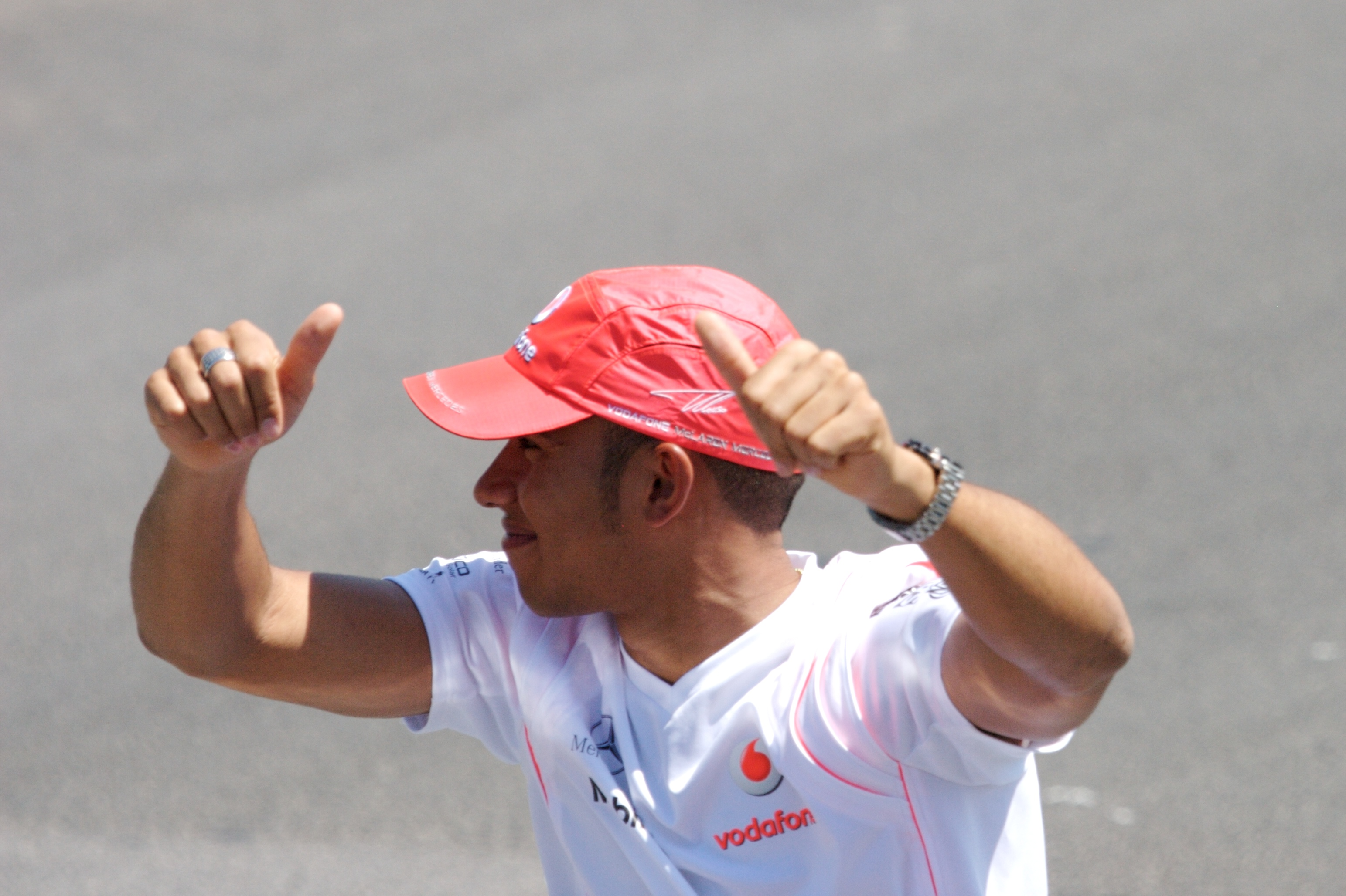 Lewis Hamilton celebrates his pole position at the 2007 Canadian Grand Prix.